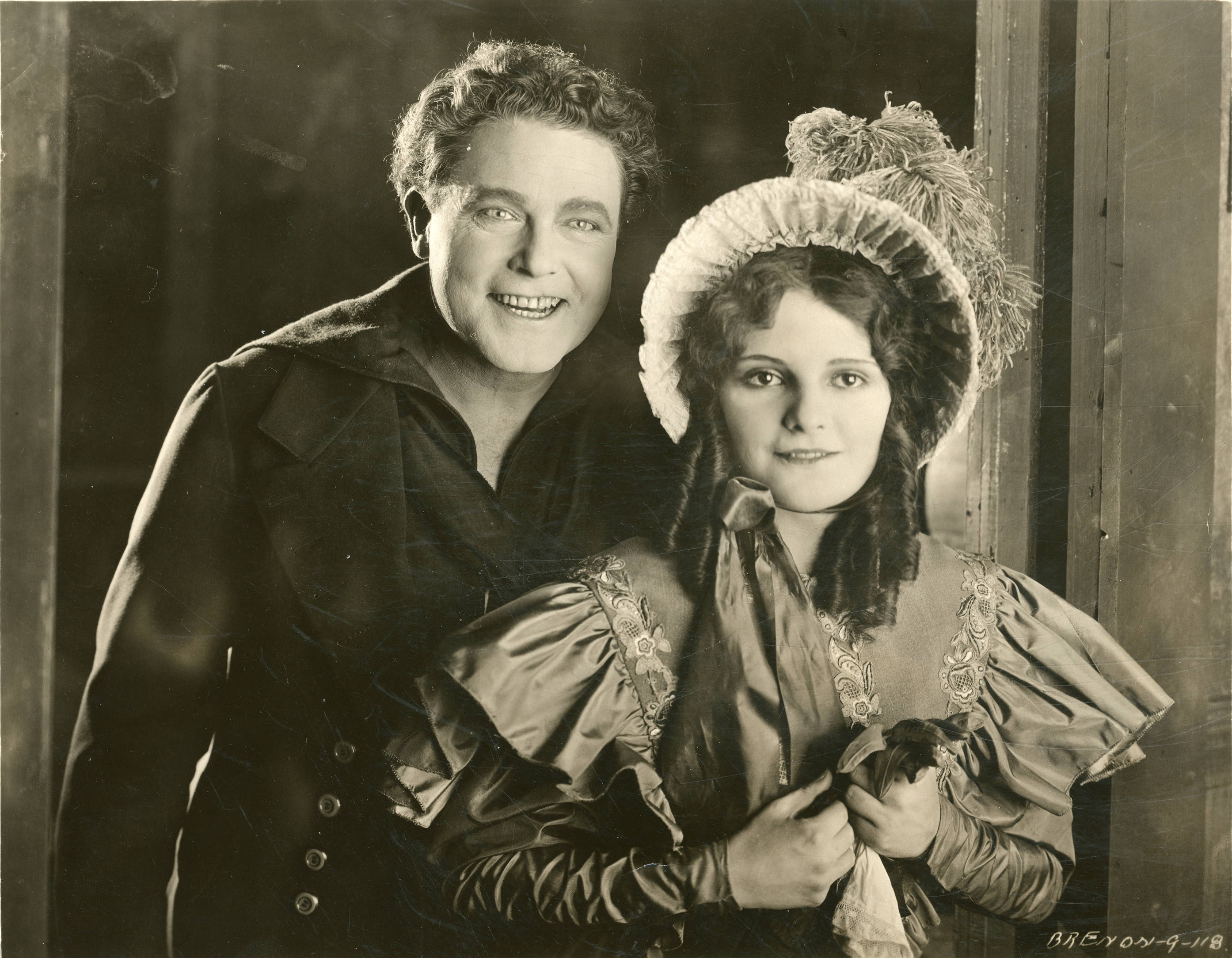 Still from the American drama film A Stage Romance (1922). Subjects: motion pictures, actors